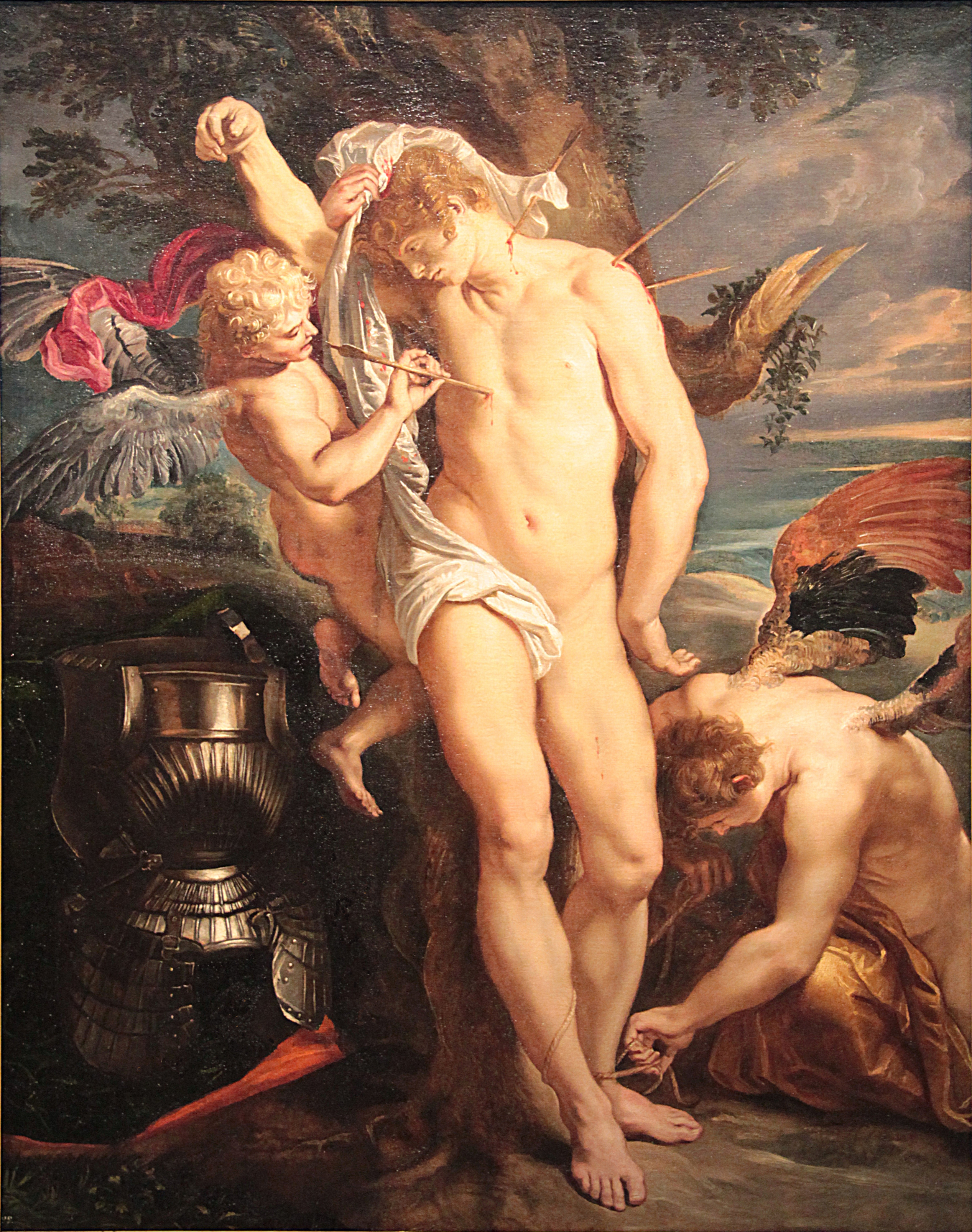 "San Sebastian rescued by angels", oil on canvas made after 1604, attributed to Peter Paul Rubens (1577-1640) ? - Work as part of the collection Schoeppler (Germany) paid to long-term to the Rubenshuis Museum of Antwerp. Photography realized during the exhibition "l'Europe de Rubens" of the Louvre-Lens Museum.